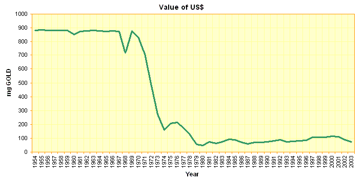 Value of us dollar as measured in milligrams 1955-2003. Previously at: :image:Value of US dollar.GIF Caption: "This graph shows the final closing value of the US dollar for each calendar year. Value is measured in milligrams of gold. By this measure the US dollar lost a very significant amount of value during the 1970s." Format This graph image could be recreated using vector graphics as an SVG file. This has several advantages; see Commons:Media for cleanup for more information. If an SVG form of this image is available, please upload it and afterwards replace this template with vector version available|new image name .